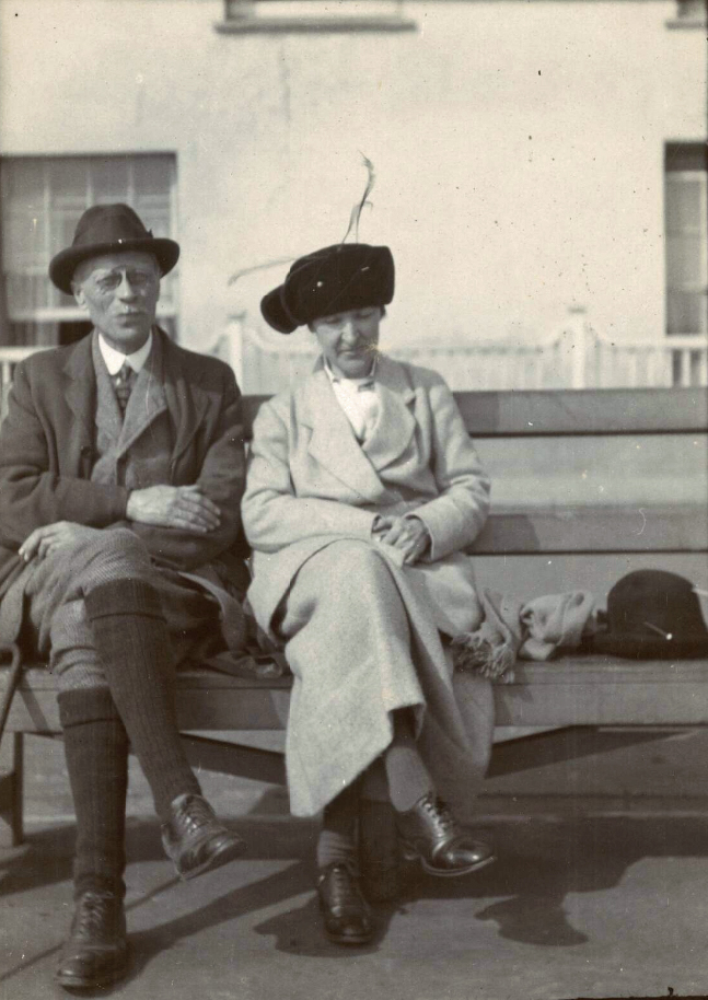 Henry Handel Richardson and husband, John George Robertson on a garden seat, Lyme Regis, England, approximately 1930